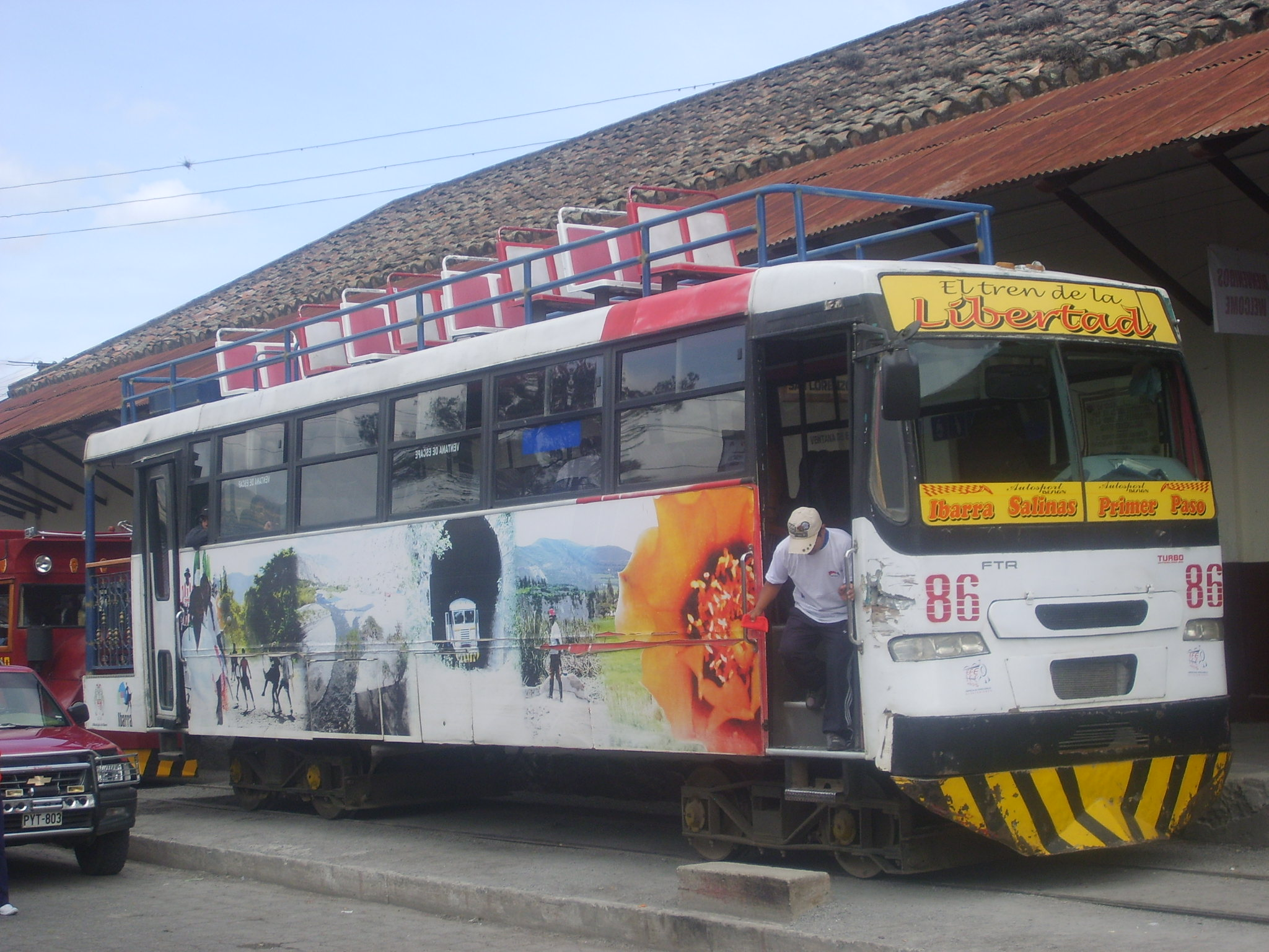 Tourist train "Tren de la Libertad" in Ibarra, Ecuador.